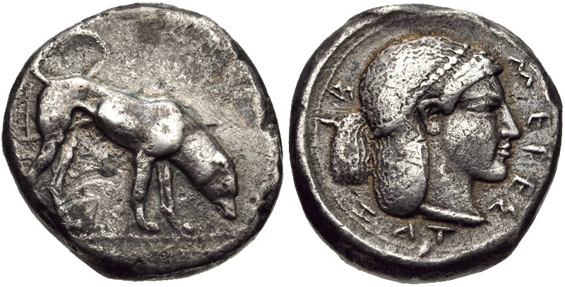 Segesta, 475/0-455/0 BC. Silver Didrachm (18mm, 8.45 g). Hound advancing right, on the scent / Head of the nymph Segesta right; ΣEΓEΣTAΙ(ΩΝ) -(of Segestans) IB retrograde around.